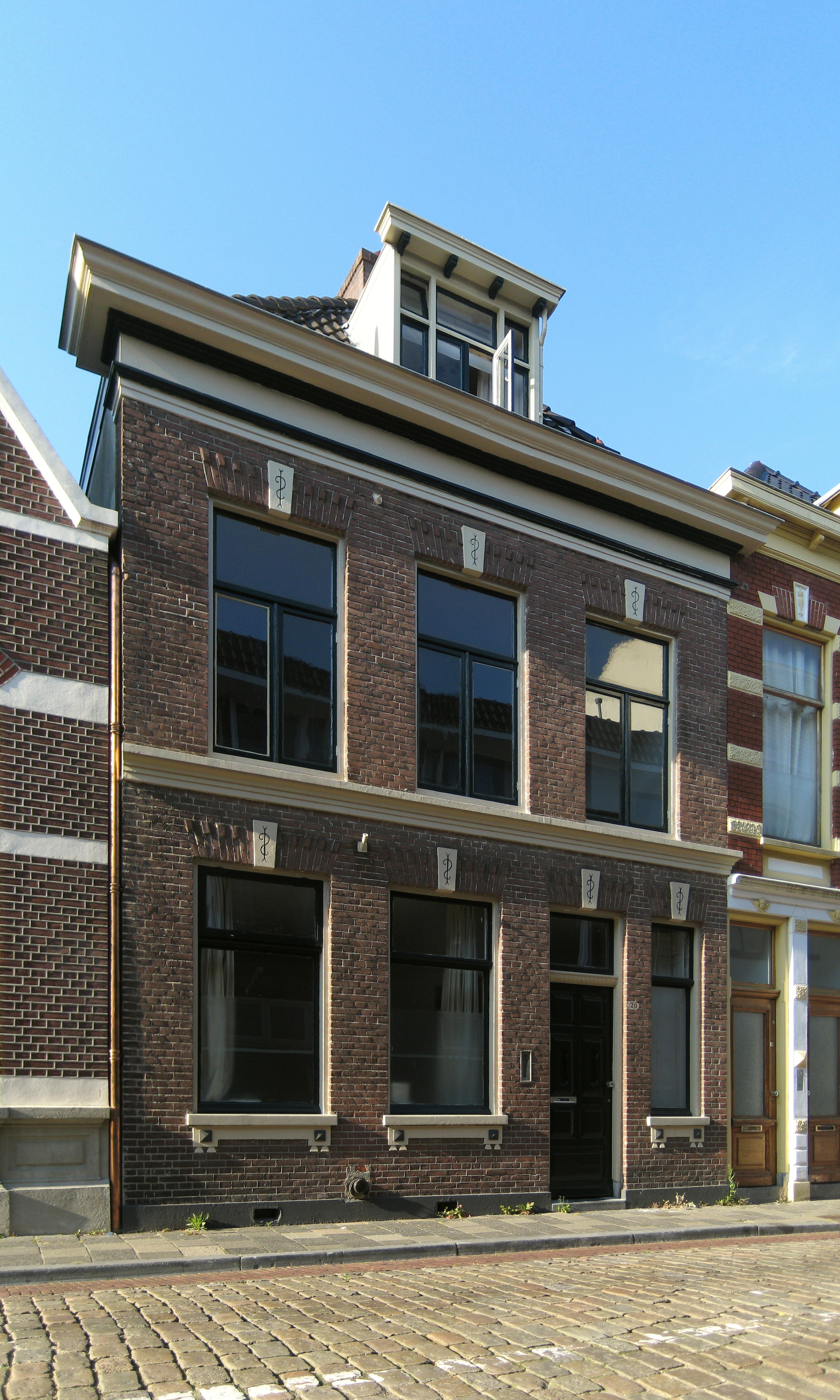 House in the Dutch city of Groningen.